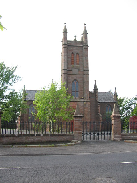 Coylton Parish Church. A view looking north across the A70 towards Coylton Parish Church of the Church of Scotland.